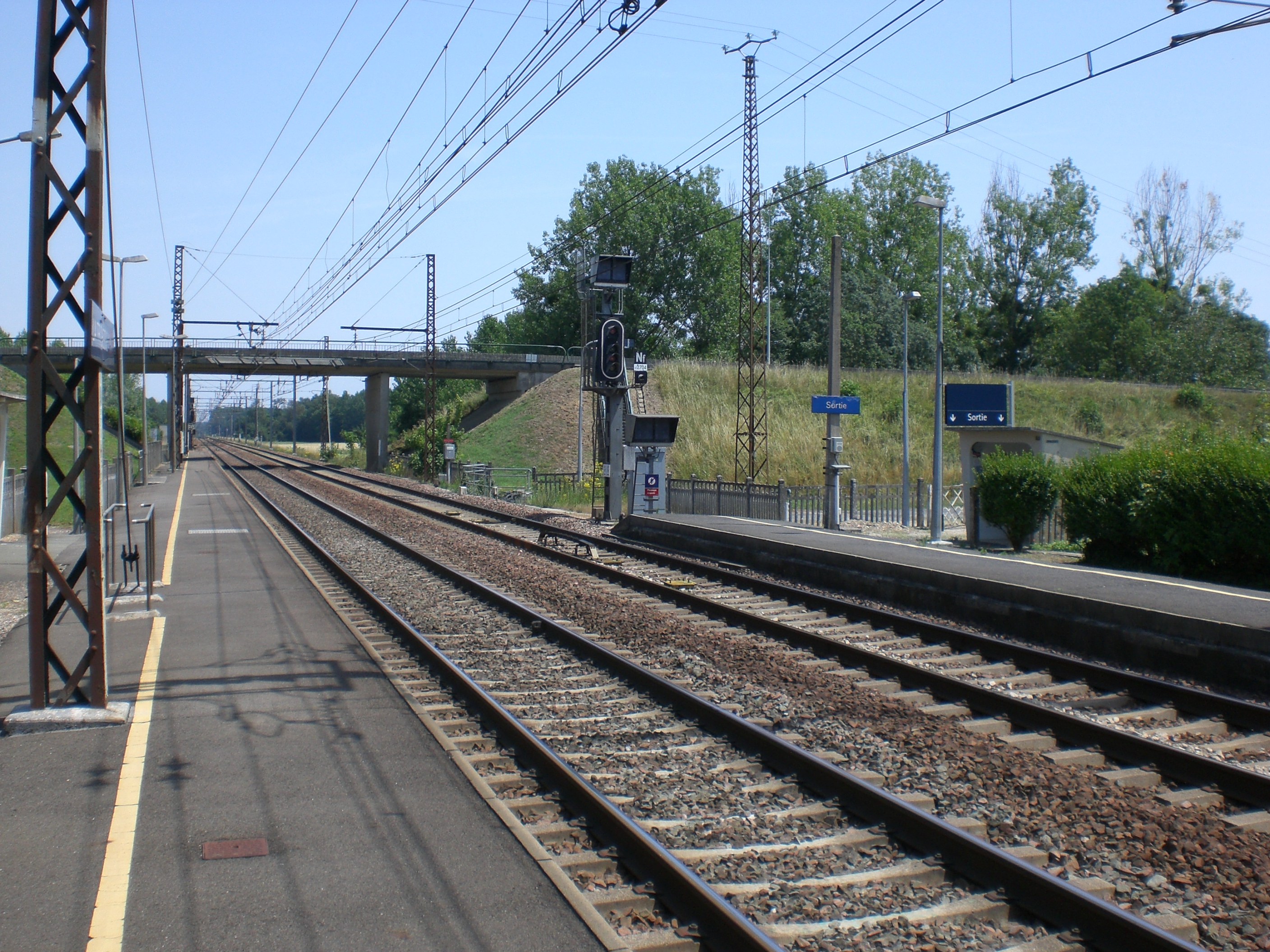 View towards Tours of the station platforms of La Tricherie.